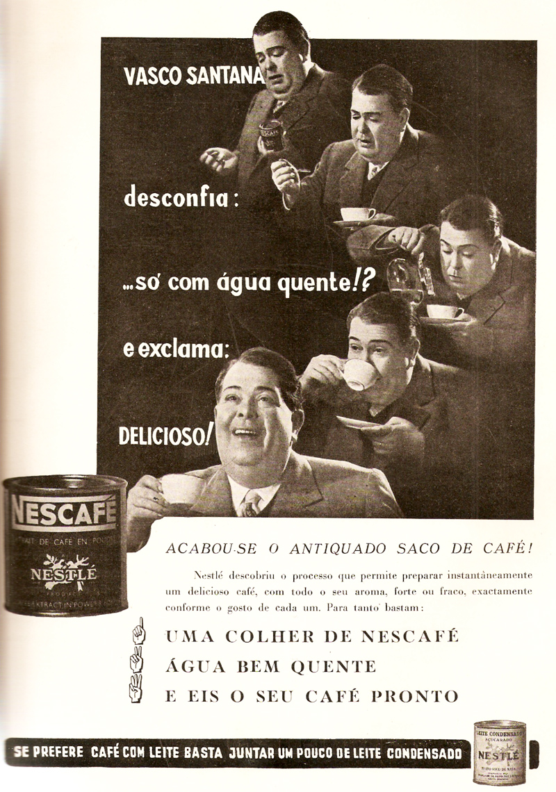 Actor Vasco Santana, one of the most famous Portuguese actors of all time. Contemporary magazine ad, circa 1930.